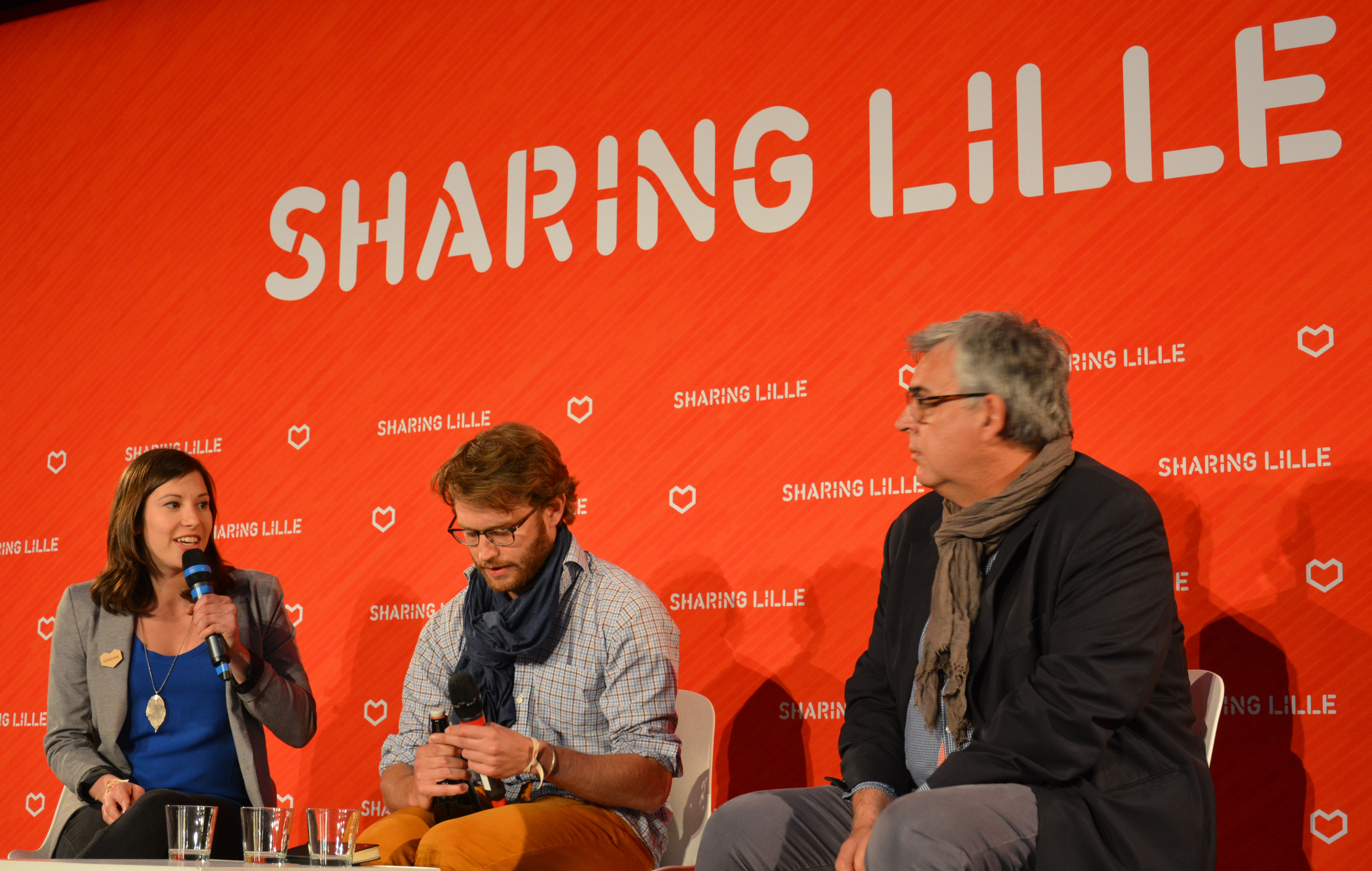 Francesca Pick (OuiShare, on the left), Antonin Léonard (Cofondateur de OuiShare) and (o the right) Pascal Terrasse (french deputy of Ardèche) in "Sharing Lille" 2016-04-21 (day dedicated to the collaborative economy across territories). This event was held in Lille Euratechnologies (in Region Nord-Pas-de-Calais and Picardy called "Hauts de France"